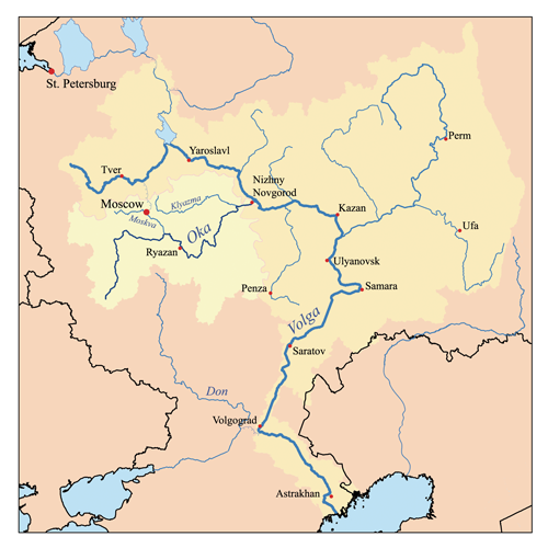 This is a map of the Volga River system with the Oka River highlighted. I, Karl Musser, created it based on USGS data.